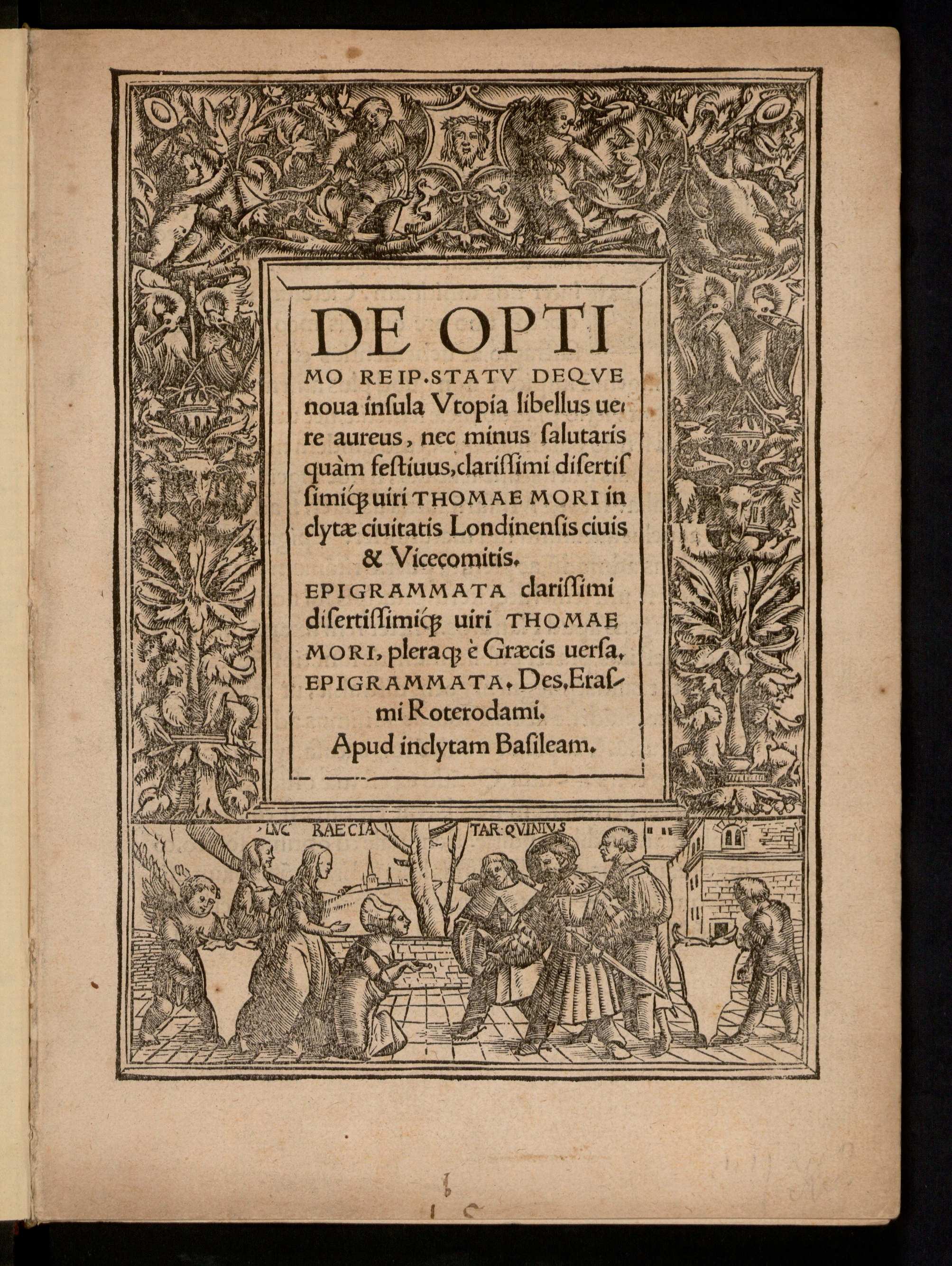 This is the frontispice of Thomas More's Utopia as it was printed by Johan Froben for 1518 march edition of the book entitled "De optimo reipublicae deque nova insula Utopia"